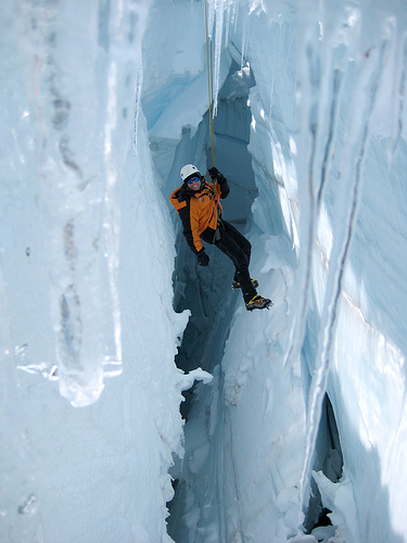 Rescue in a crevasse !it was a bottomless black hole beneath us. totally intimidating.